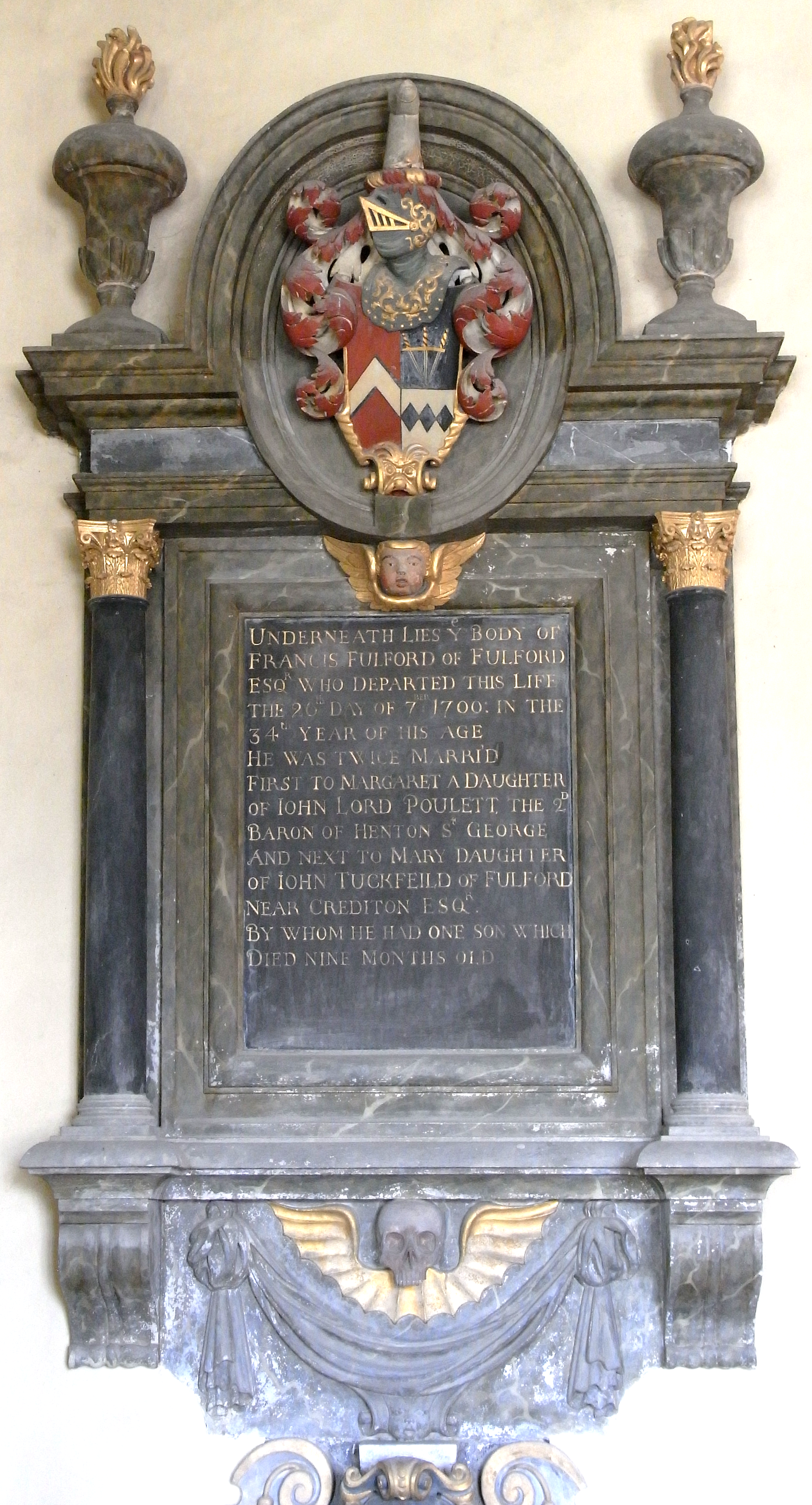 Mural monument to Francis Fulford (d.1700) of Great Fulford, Dunsford, Devon in the Fulford Chapel of Dunsford Church. Inscribed: "Underneath lies ye body of Francis Fulford of Fulford Esqr who departed this life the 26th day of 7ber 1700 in the 34th year of his age. He was twice marri'd. First to Margaret a daughter of John Lord Poulett the 2d Baron of Henton StGeorge and next to Mary daughter of John Tuckfeild of Fulford near Crediton Esqr by whom he had one son which died nine months old" (7ber = September). Above are shown the arms of Fulford impaling Poulett in chief and Tuckfield in base with the crest of Fulford above: A bear's head and neck erased sable muzzled or